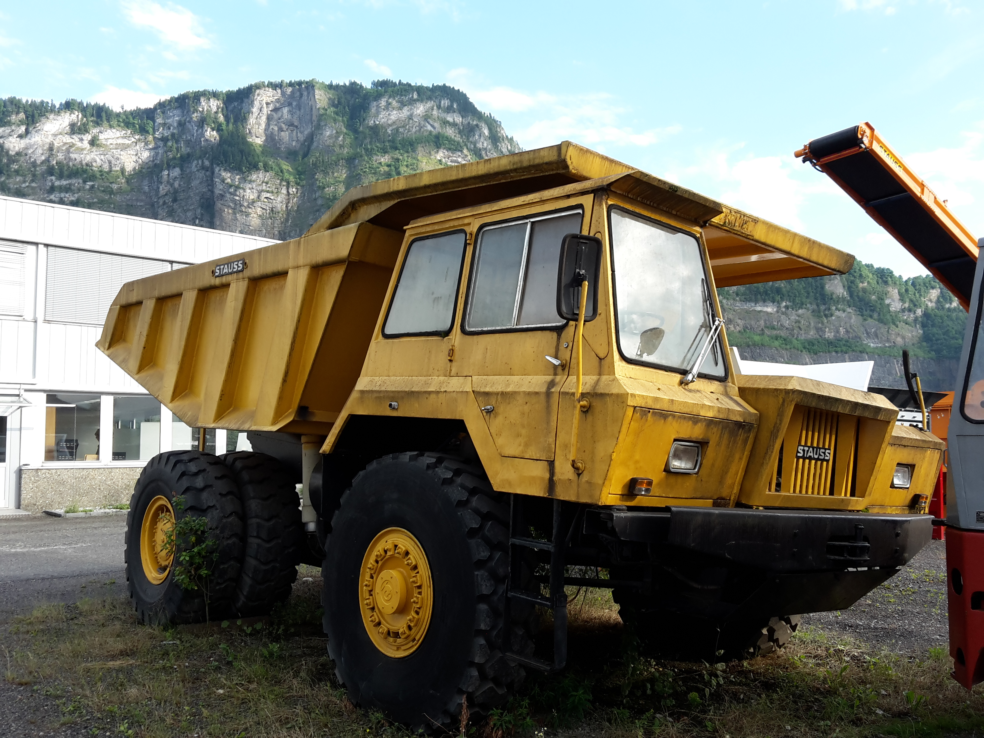 Discarded Perlini heavy-lift haul truck (dumper) in Dornbirn, Vorarlberg, Austria.